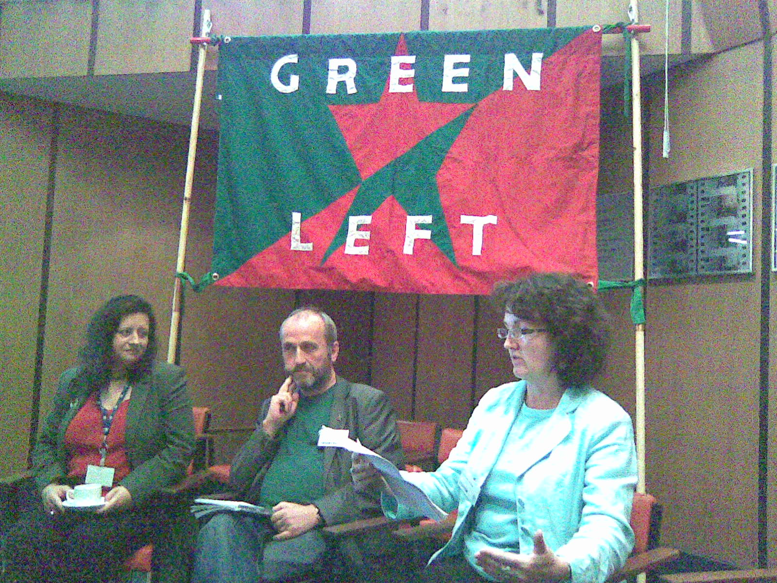 Councillor Bronwen Maher of Dublin (right) shares her experiences with the Green Left fringe meeting at Green Party of England and Wales conference, Hove 2009. Also pictured: Joseph Healy, Green Party parliamentary candidate for Vauxhall (centre) and Romayne Phoenix (left).